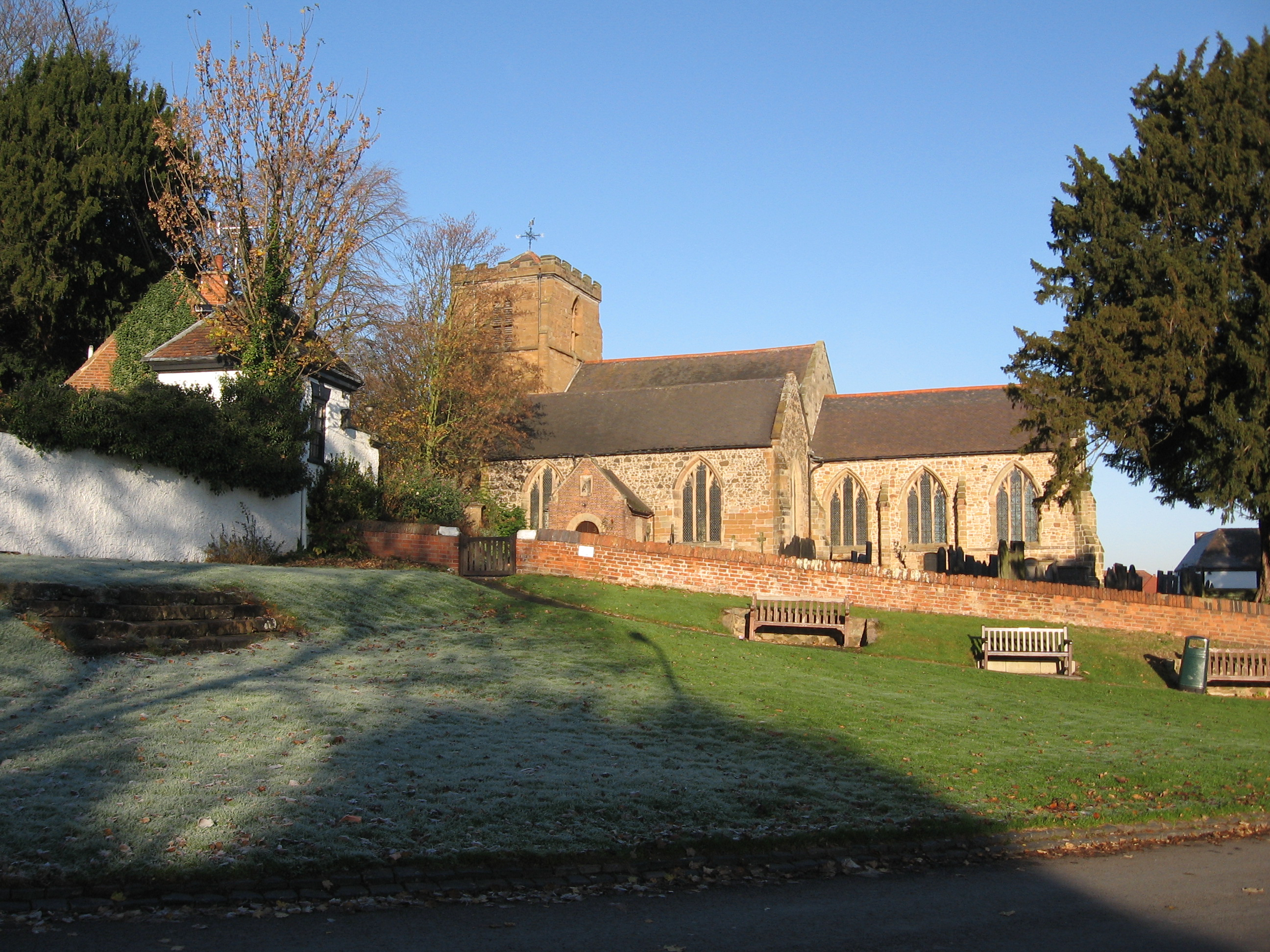 St Peter's parish church, Mancetter, Warwickshire, seen from the southeast